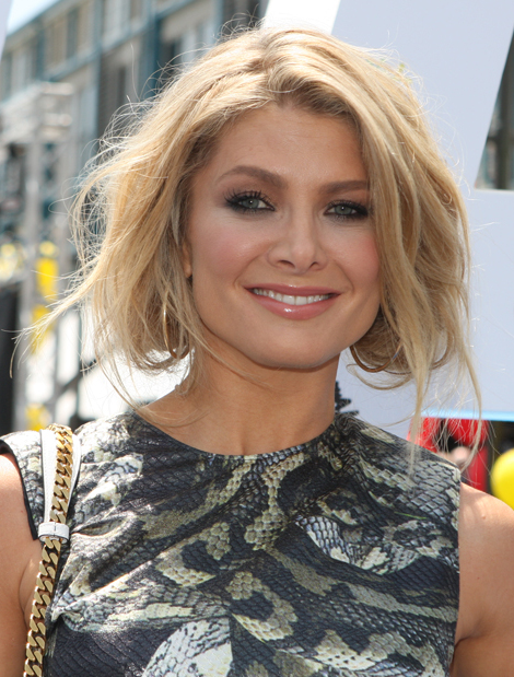 Natalie Bassingthwaighte at the Sydney Stars Come Out for Sony Foundation Youth Cancer Campaign - WHARF4WARD.